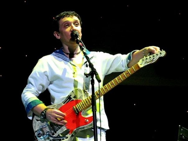 Eugene Havtan (also spelled Evgeniy Havtan or Evgeny Khavtan), BKZ October, St. Petersburg, Russia